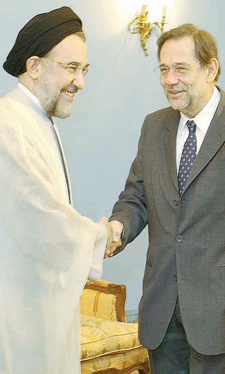 Javier Solana and Mohammad Khatami - Tehran - July 29, 2002